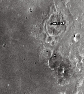 Gaudibert lunar crater as seen from Earth with satellite craters labeled